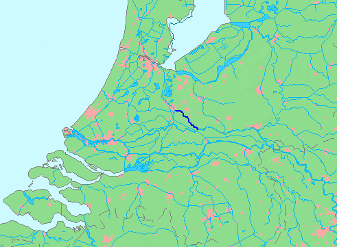 Location of a waterway (river/canal) in the Netherlends